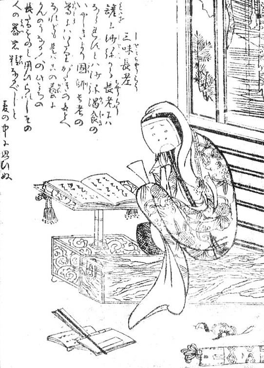 Shamichōrō (三味長老) from the Gazu Hyakki Tsurezure Bukuro (百器徒然袋)